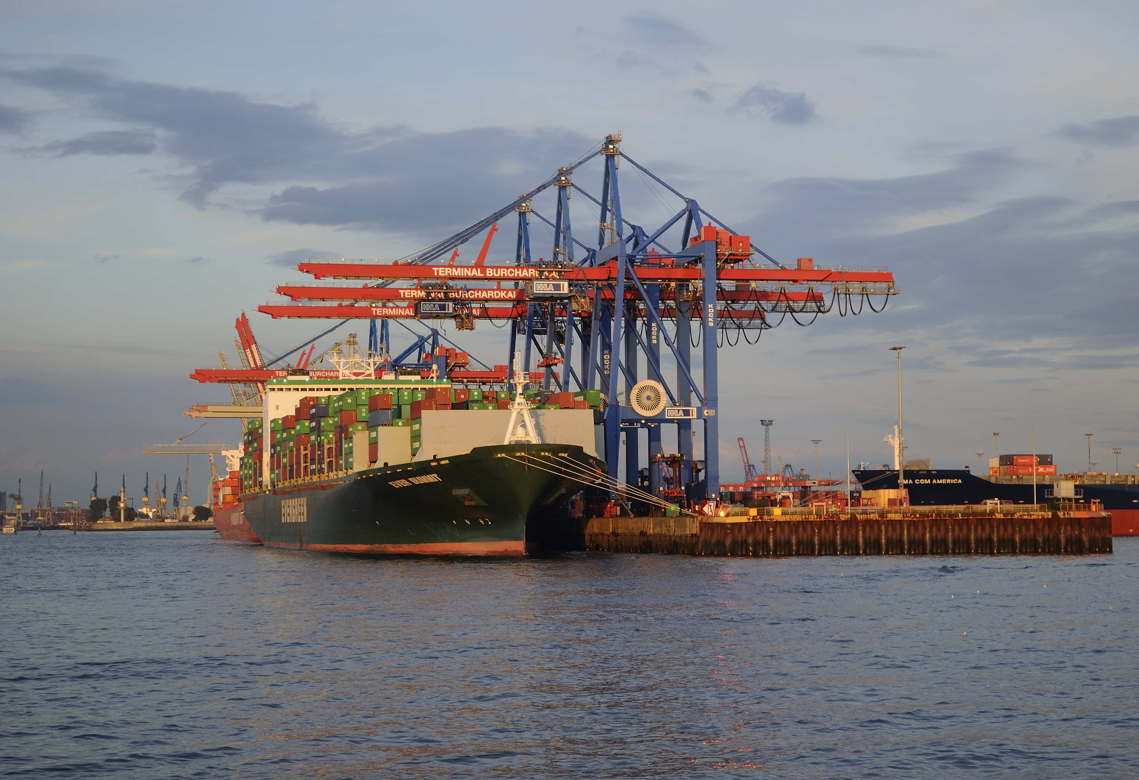 Picture taken in Hamburg. Port of Hamburg.